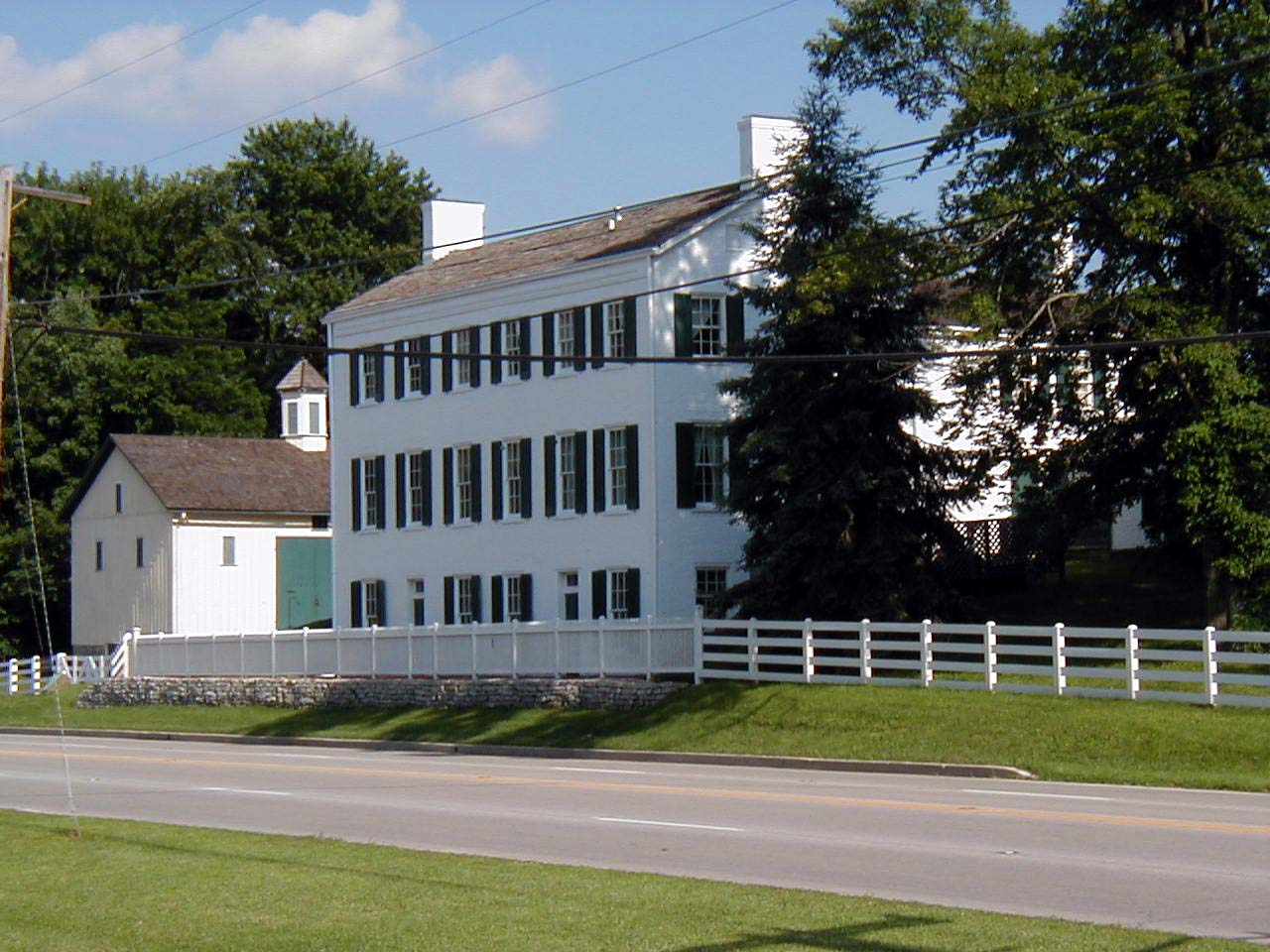 Huddleston Farmhouse Inn Museum, in Mount Auburn, Indiana.